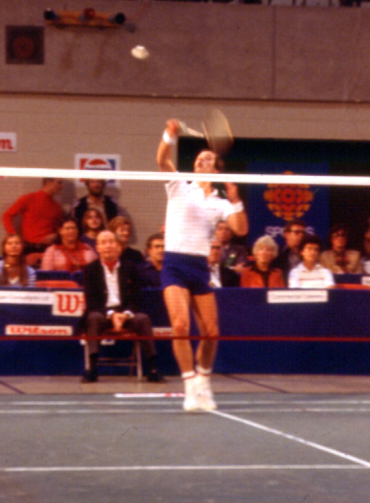 Thomas Kihlström at the Canadian Open 1977 in Badminton at Etobicoke Olympium.